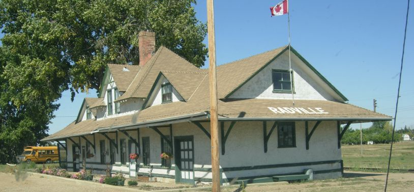 Photo by Victor L. Lee, September 2006. The historic CN Station with no more tracks. Photo by Victor L. Lee, September 2006. The historic CN Station with no more tracks.